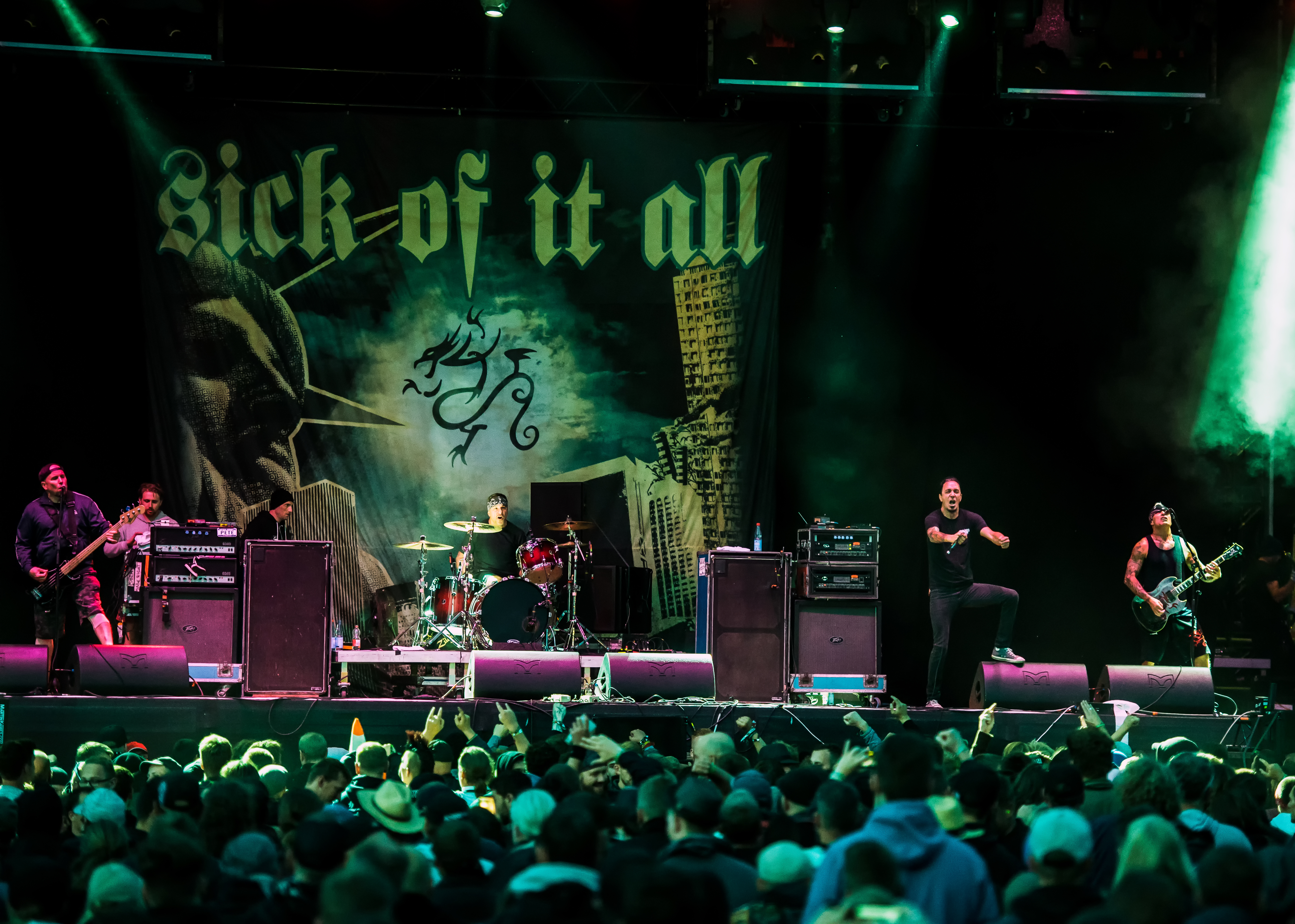 Sick of It All playing at Reload Festival 2018